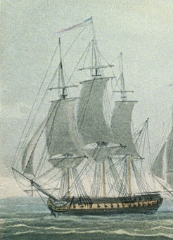 Sir Graham Moore's action, Oct 5th 1804. HMS Medusa, Indefatigable, Amphion, & Liveley. Capture of a Spanish Squadron off Cadiz, 5 Oct. 1804. Caption says George instead of Graham